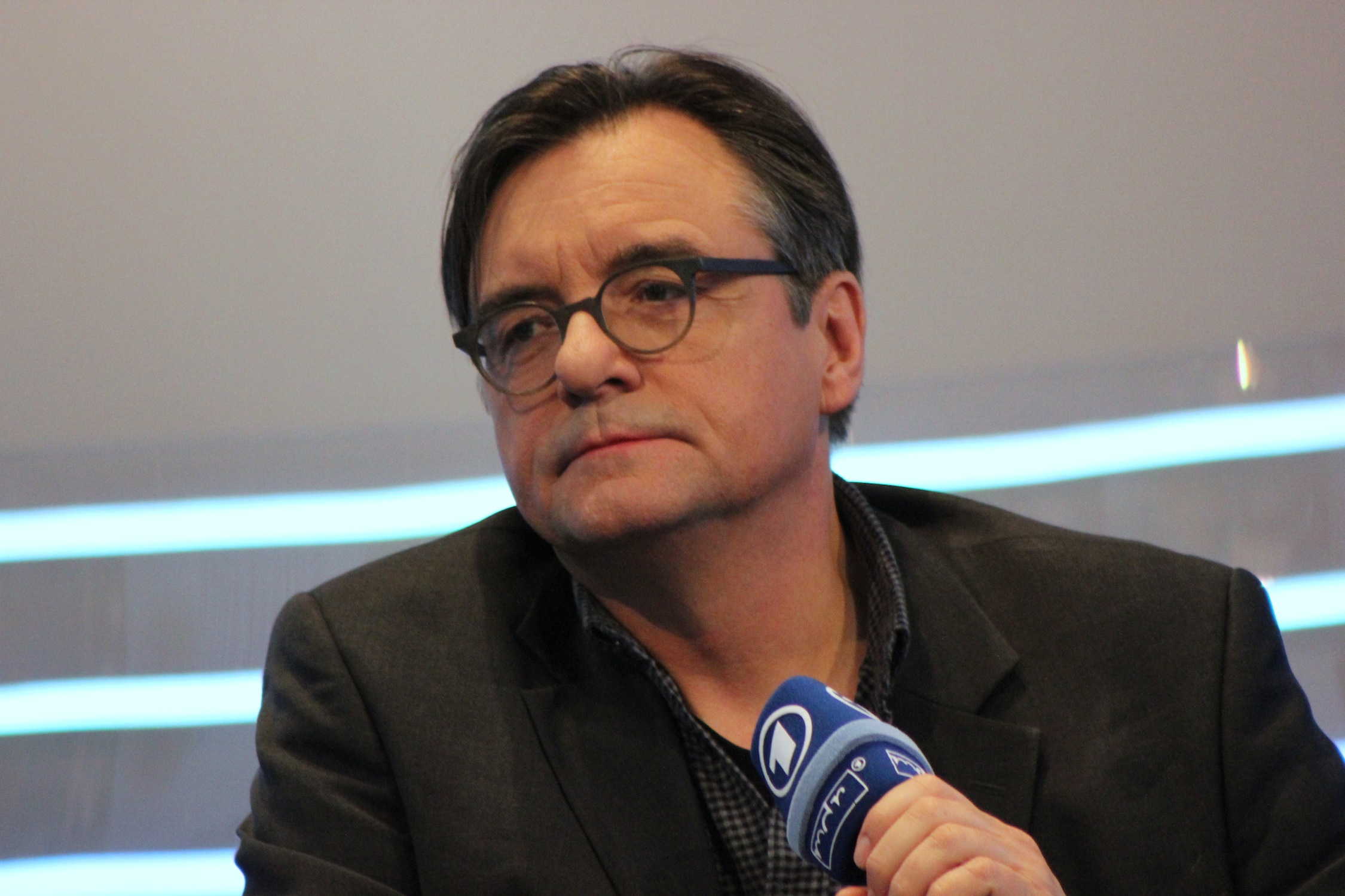 Klaus-Michael Bogdal, Leipzig Book Fair 2013